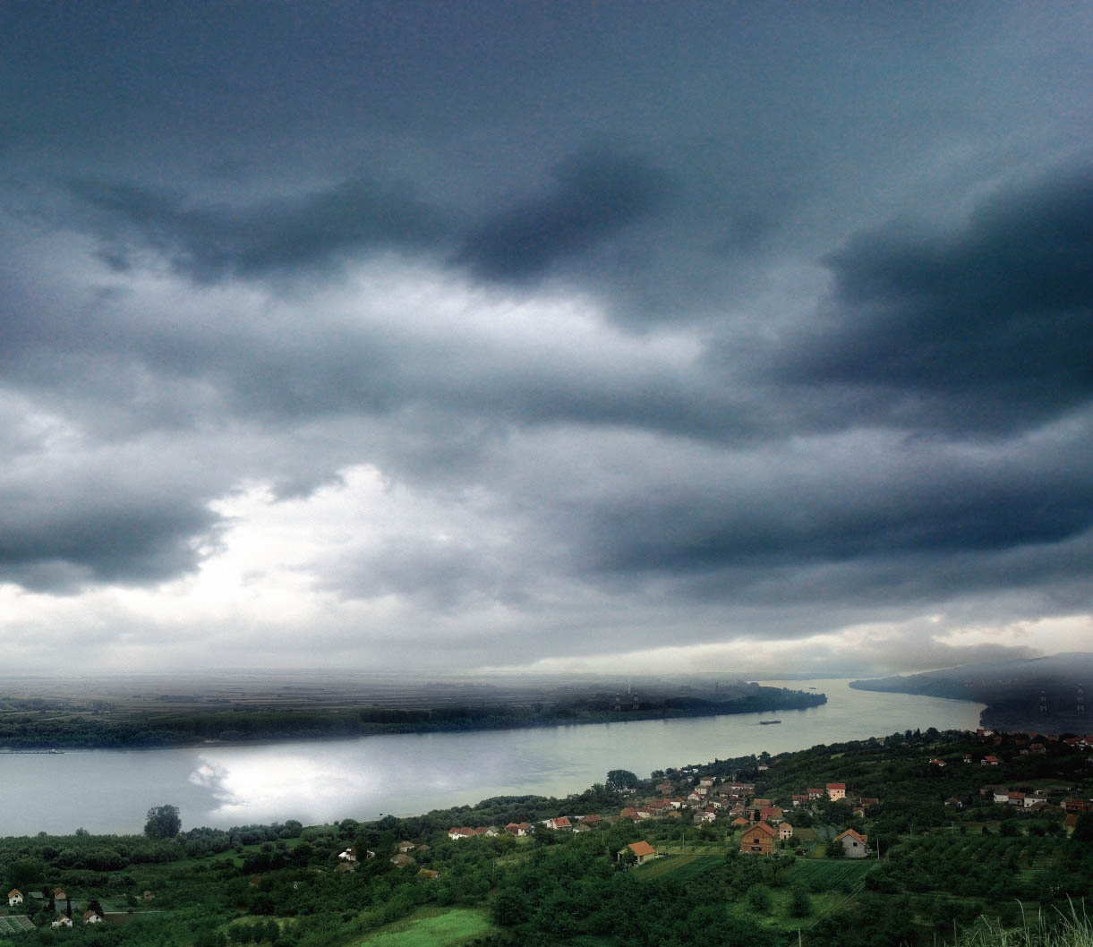 Vinca and the Danube viewed from the air